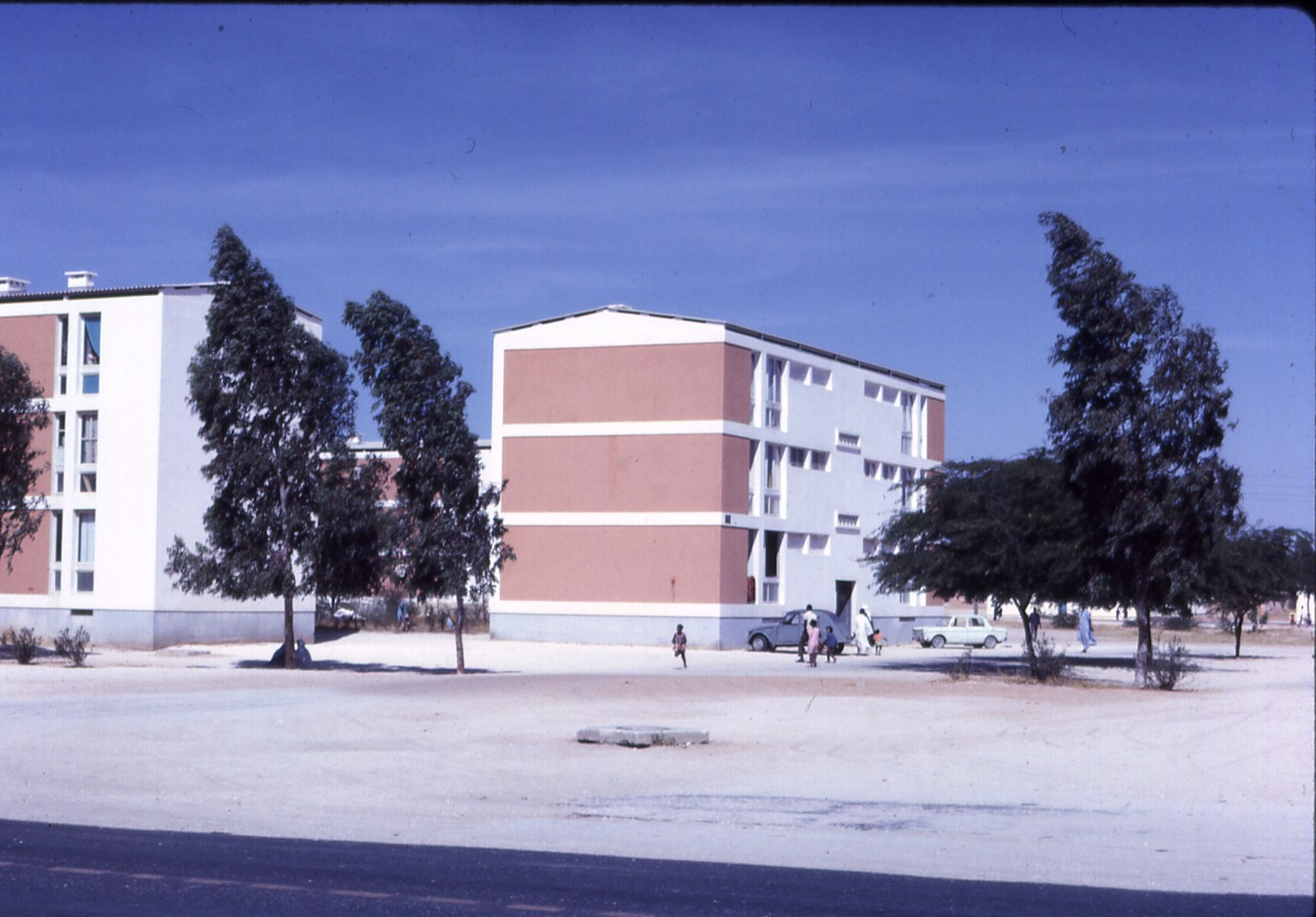 Nouakchott, Mauritania across from the Hotel Maharaba in the new part of the city